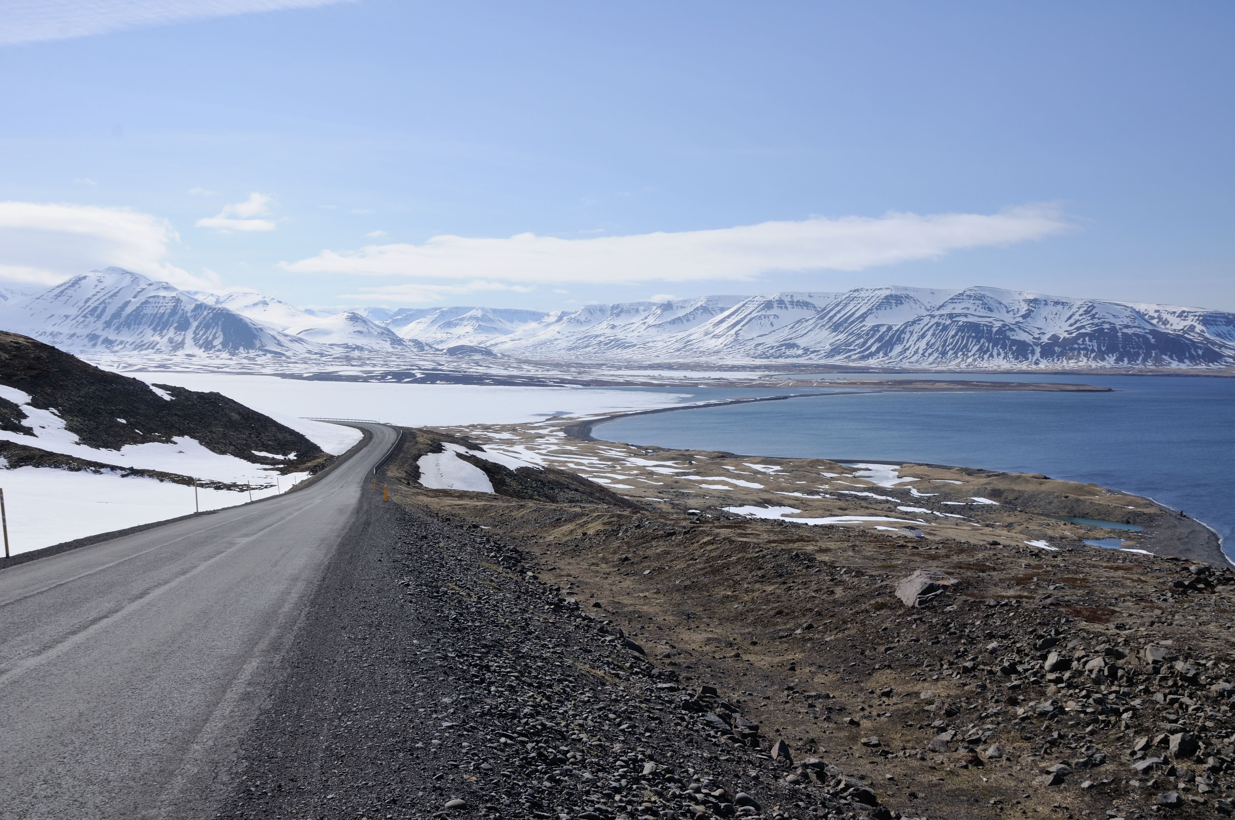 Iceland , impressions along road 76